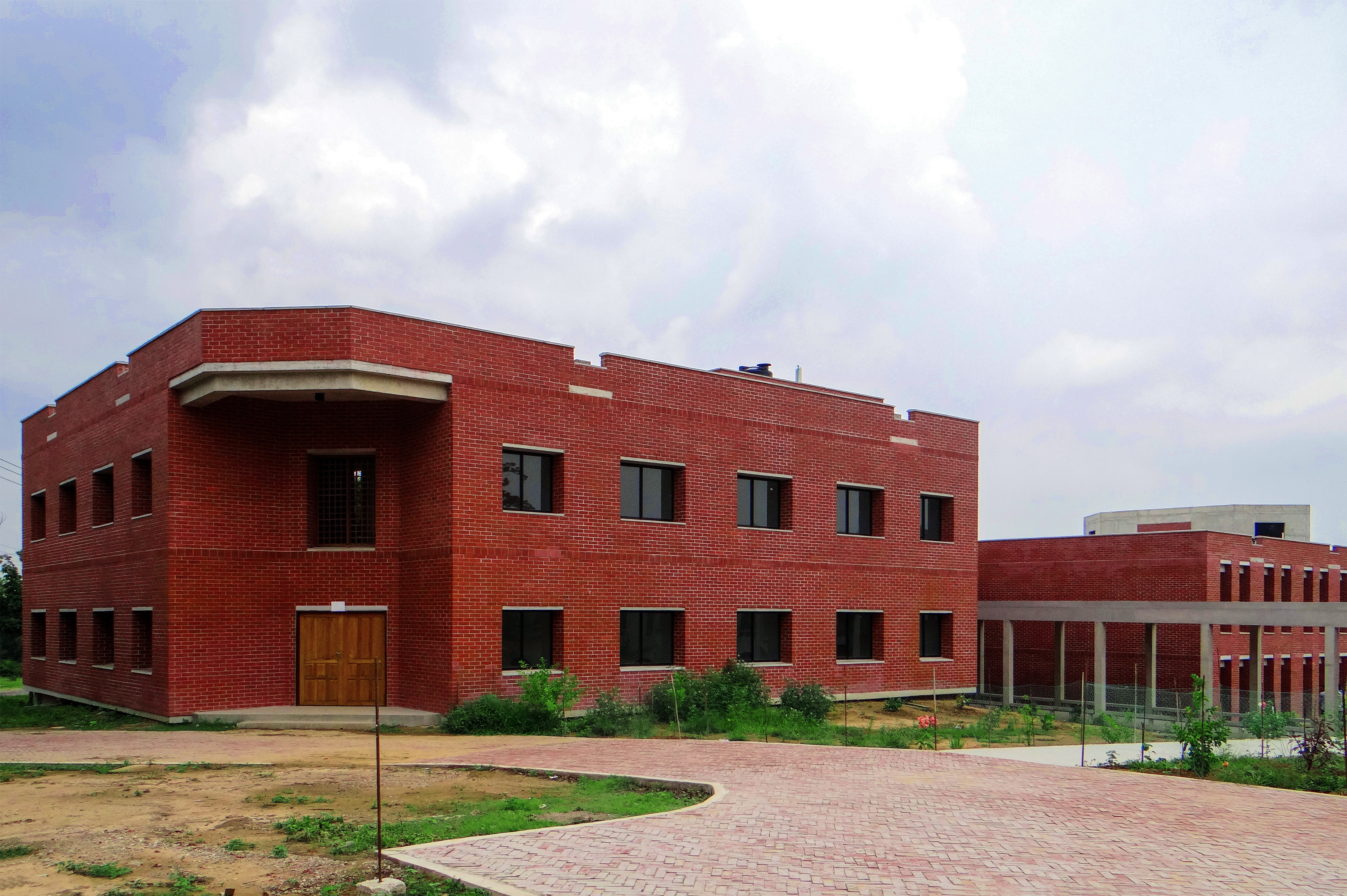 Faculty of Law, University of Chittagong